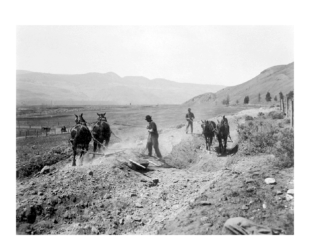 Photo taken 1910 Photographer: Unknown Source #D-03171 [1]